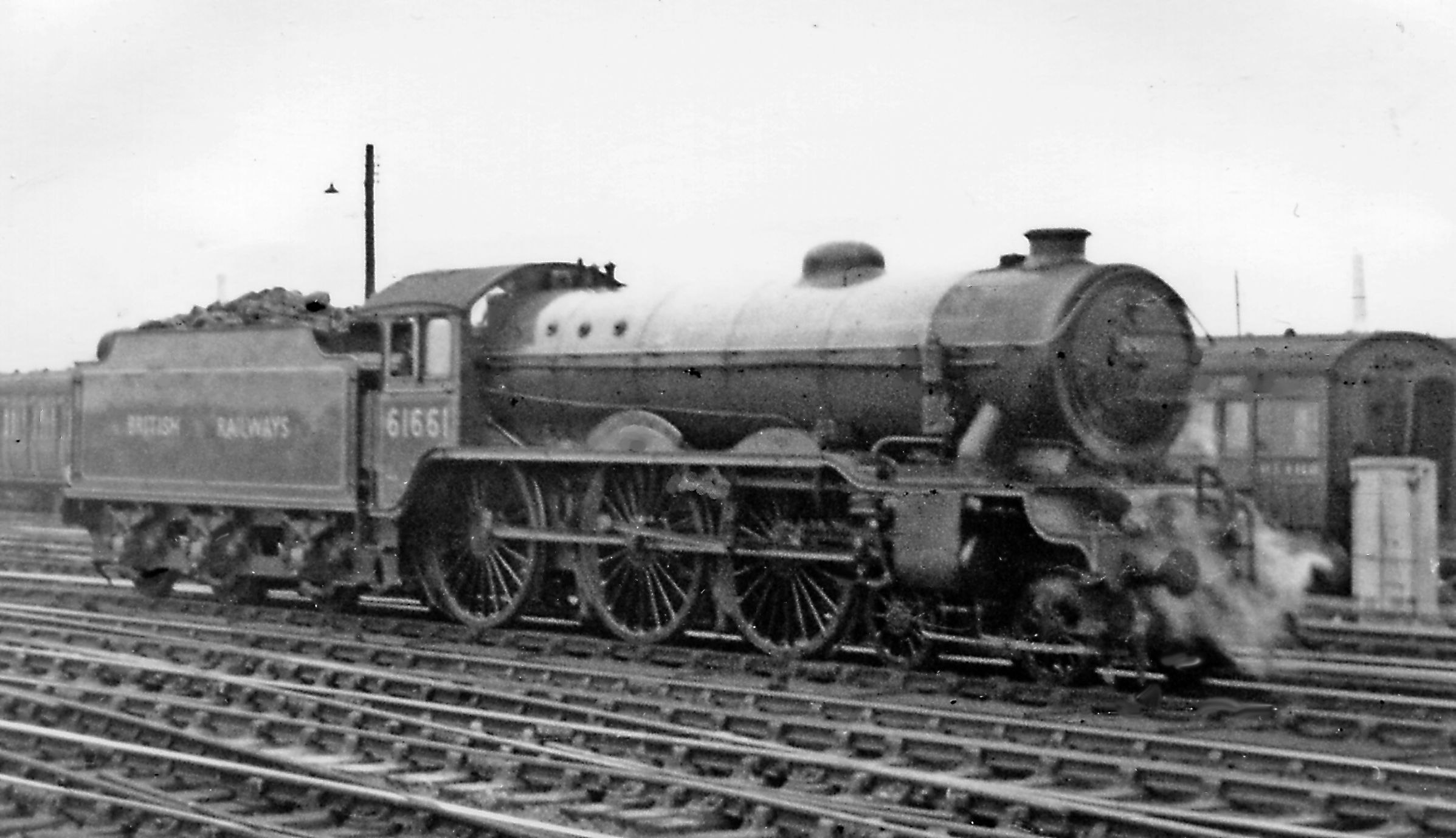 A Gresley B17/4 'Footballer' 4-6-0 at Stratford. View west from the London end of Stratford's PLatform 5/6, No. 61661 'Sheffield Wednesday' is coming from the Locomotive Depot light-engine, passing the Channelsea Carriage Sidings. Here already in BR green livery with 'British Railways' on the tender, this engine was built in 6/36 as No. 2861, renumbered 1661 in 1946, reboilered to B17/6 in 8/55 and withdrawn as No. 61661 in 7/59. (All 'Footballers' had a 'ball' on their nameplates